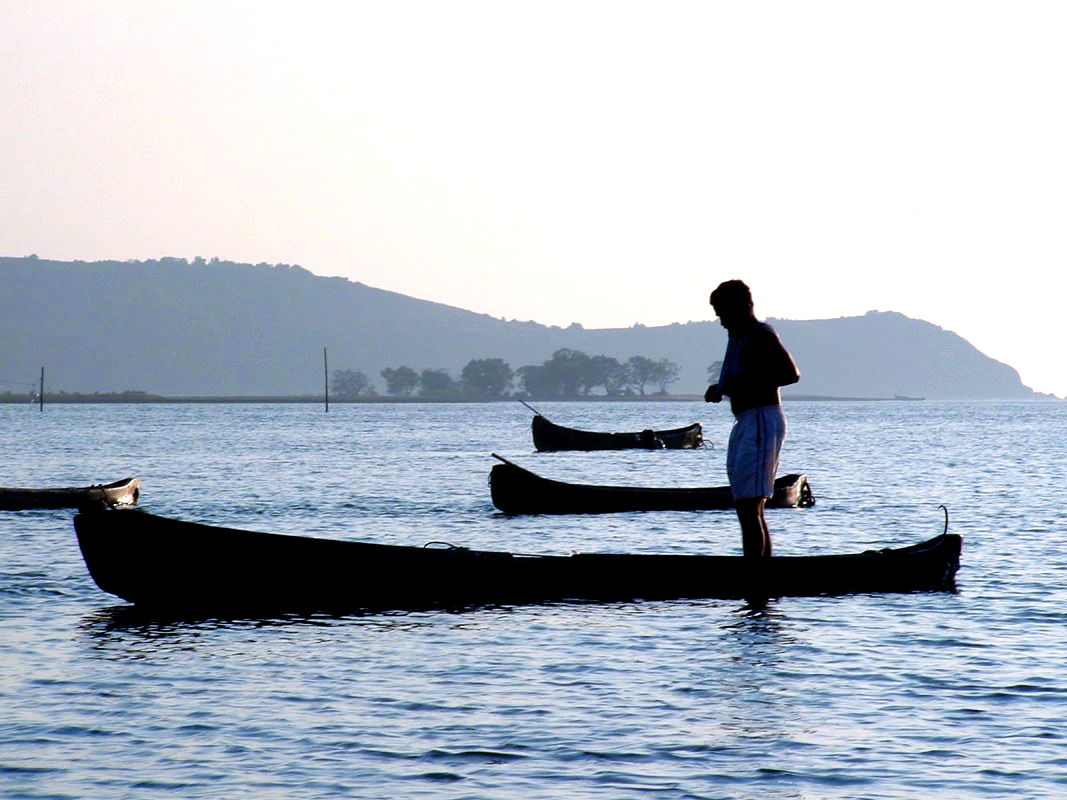 Boats on Chapora River